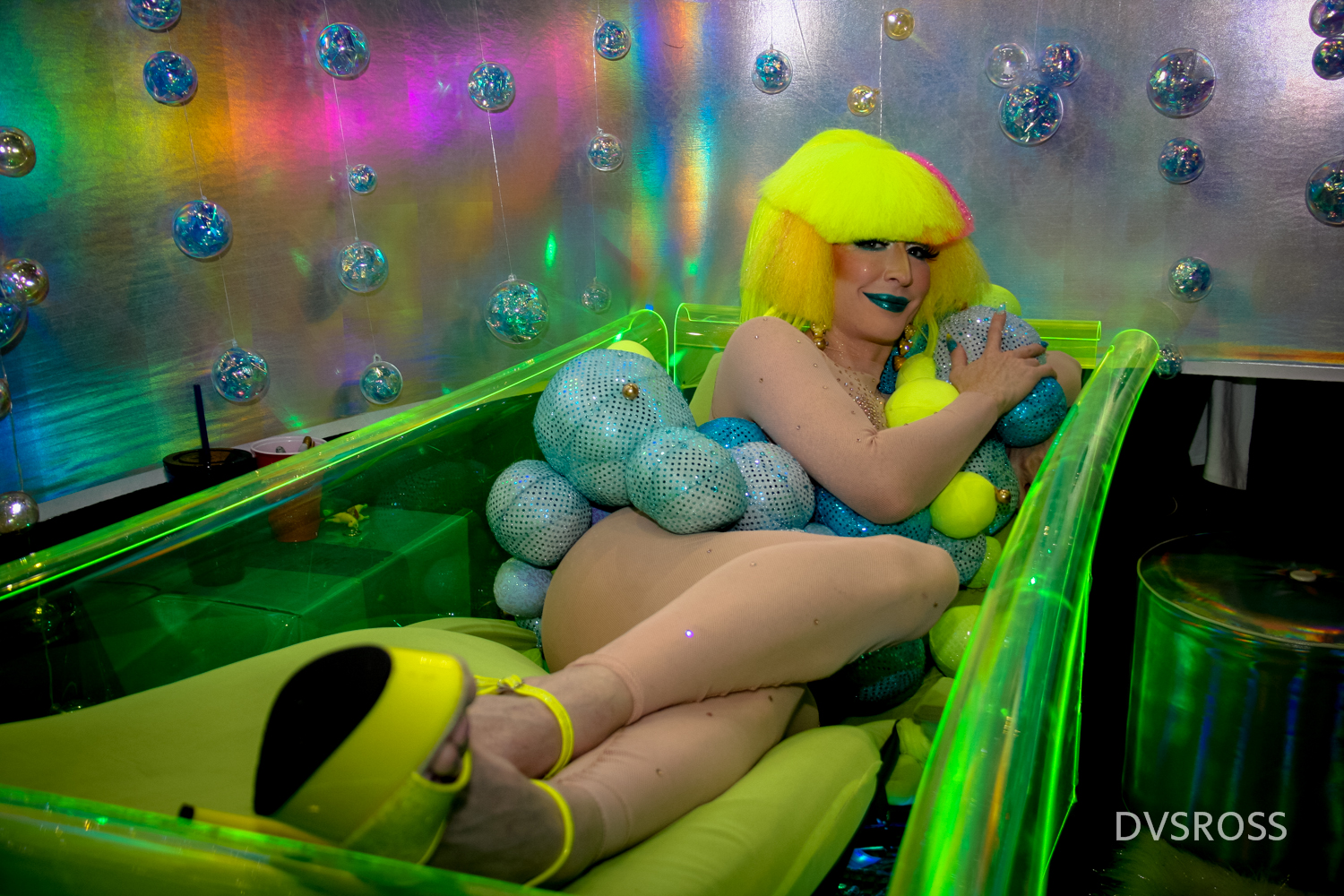 Detox Icunt at RuPauls Drag Con 2017